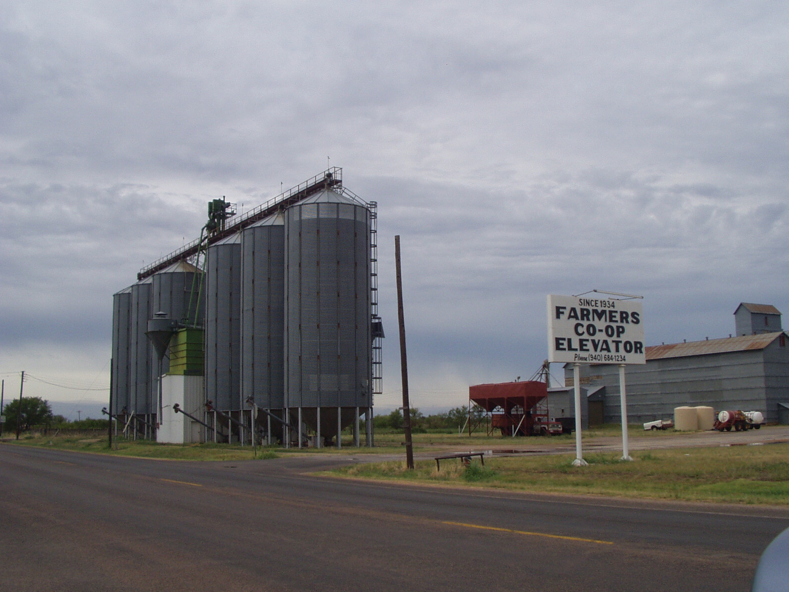 Grain Co-op, Crowell, Texas -taken by user:pschemp